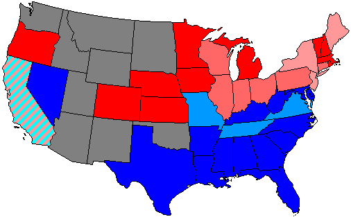 Summary of party control of U.S. house seats in the 47th United States Congress following election. Stripes indicate a tie between two or more parties. Legend: 80.1-100% Democratic seat majority 60.1-80% Democratic seat majority 60% or less Democratic seat plurality 60% or less Republican seat plurality 60.1-80% Republican seat majority 80.1-100% Republican seat majority